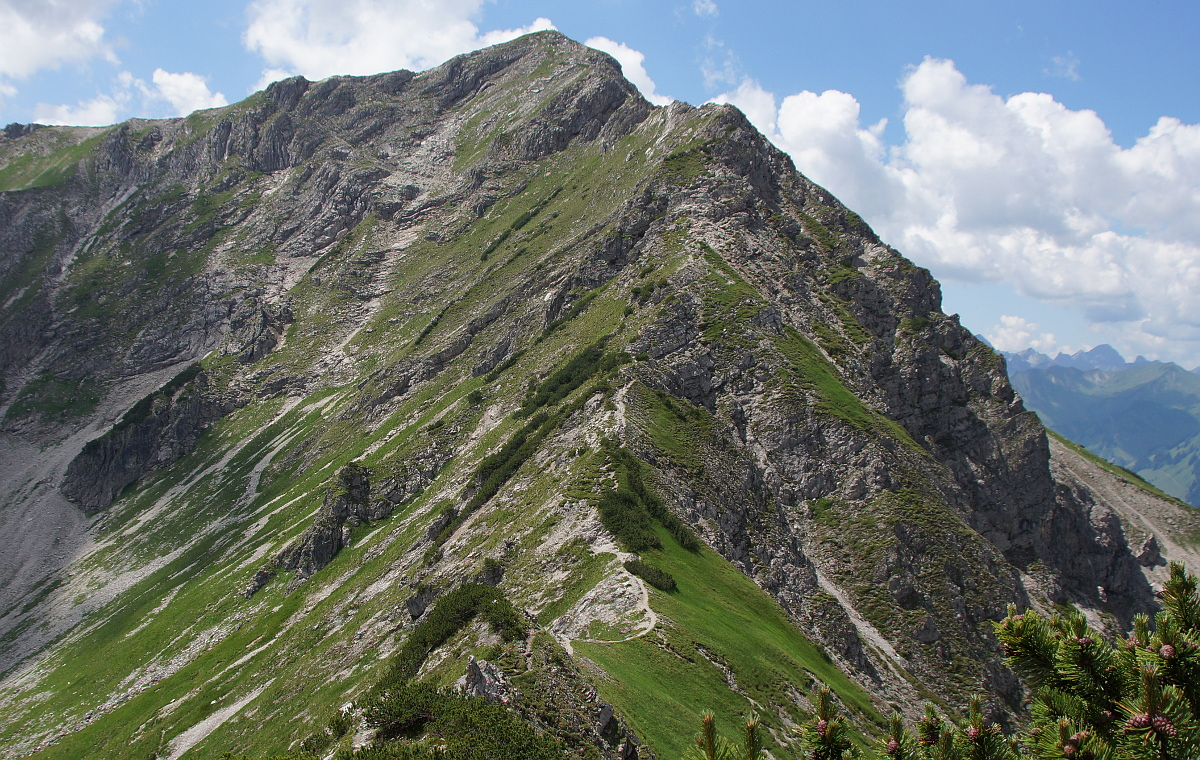 Walser Hammerspitze